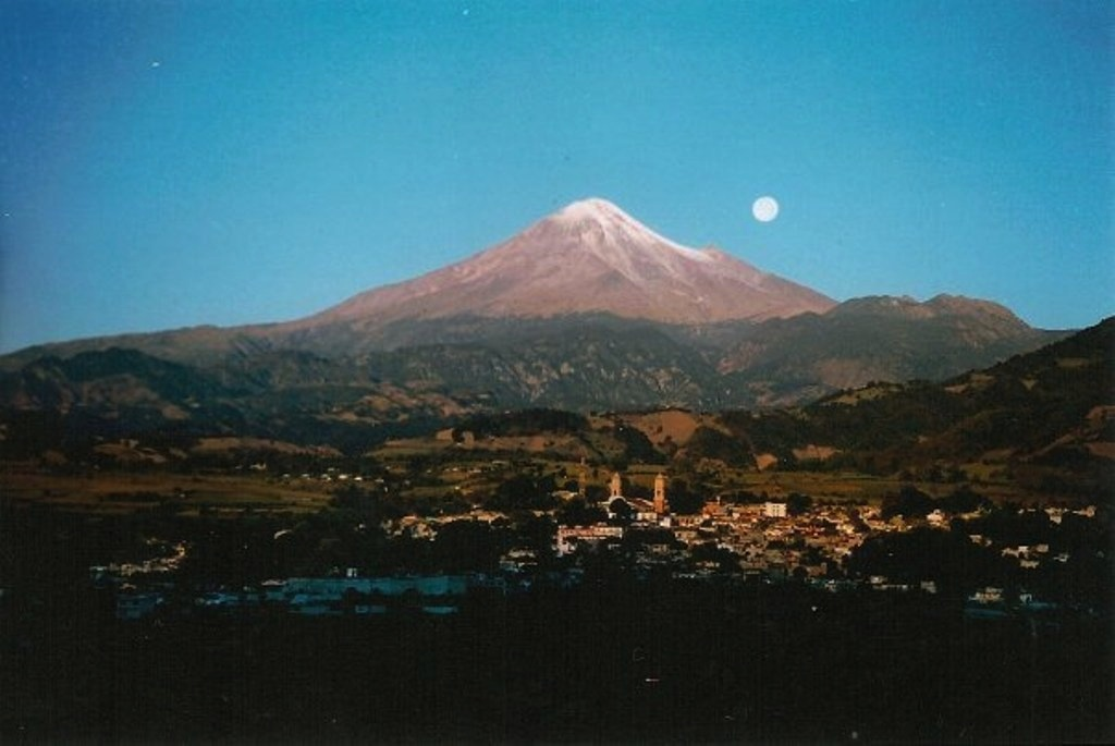 Panorámica de la ciudad de Coscomatepec y el Pico de Orizaba